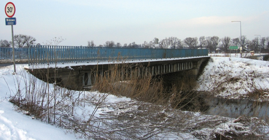 city Wrocław, Poland Polanowicki Bridge over Widawa River (tributary of Odra River) - northern border of Wrocław administrative area. Next village: Krzyżanowice